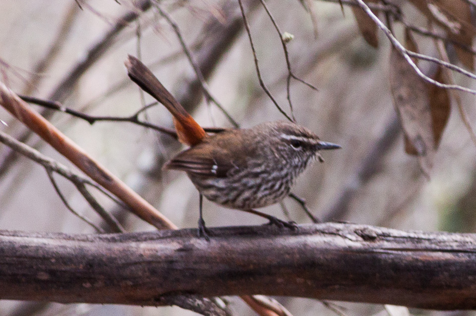 Shy Heathwren (Calamanthus cautus)